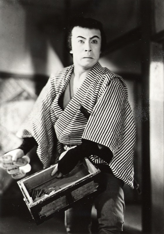 Denjirō Ōkōchi in Senryō tsubute (千両礫) directed by Hiroshi Inagaki - 1935